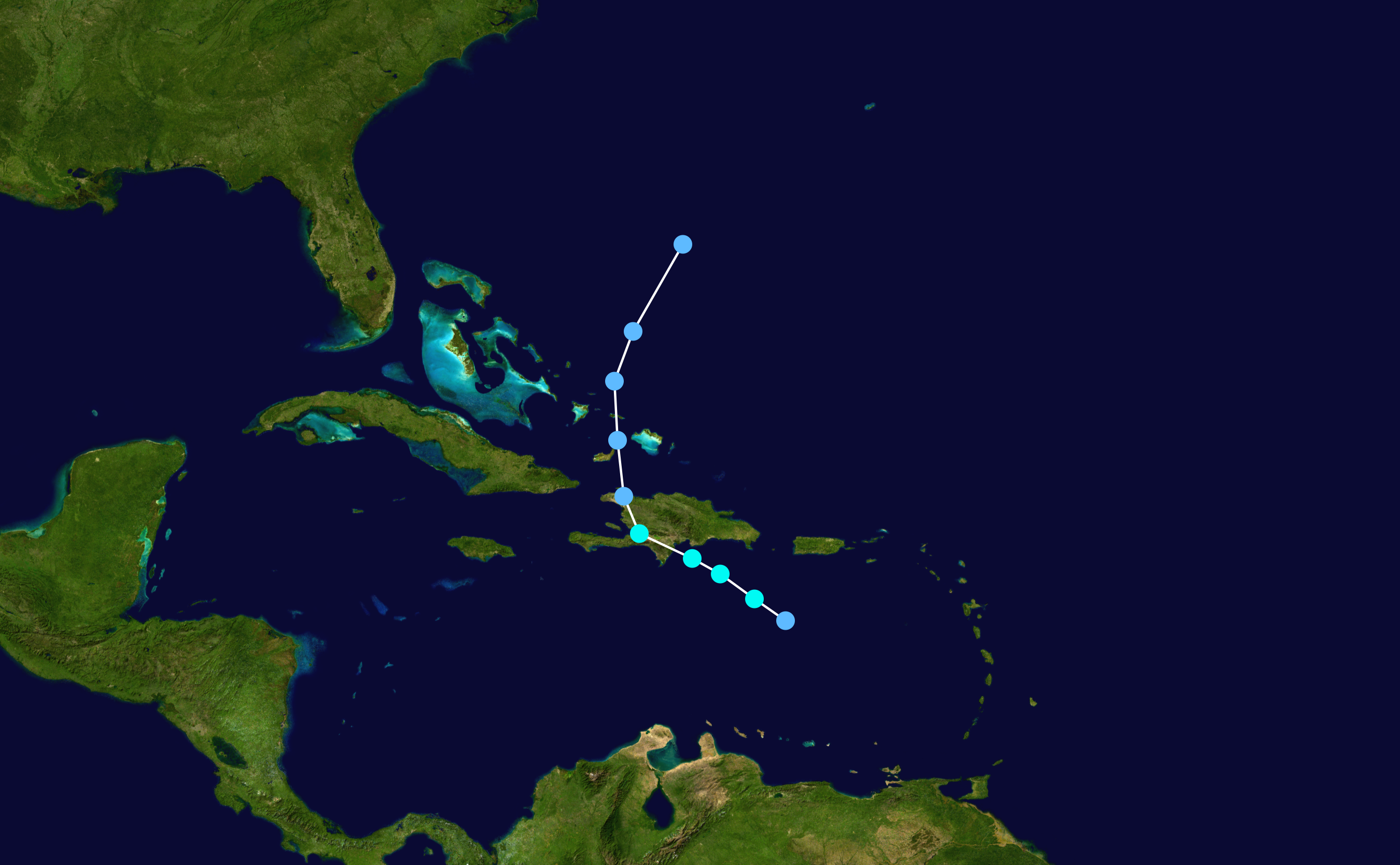 Track map of Tropical Storm Alpha of the 2005 Atlantic hurricane season. The points show the location of the storm at 6-hour intervals. The colour represents the storm's maximum sustained wind speeds as classified in the Saffir–Simpson scale (see below), and the shape of the data points represent the nature of the storm, according to the legend below. Saffir–Simpson scale Tropical depression≤38 mph≤62 km/h Category 3111–129 mph178–208 km/h Tropical storm39–73 mph63–118 km/h Category 4130–156 mph209–251 km/h Category 174–95 mph119–153 km/h Category 5≥157 mph≥252 km/h Category 296–110 mph154–177 km/h Unknown Storm type Tropical cyclone Subtropical cyclone Extratropical cyclone / Remnant low / Tropical disturbance / Monsoon depression